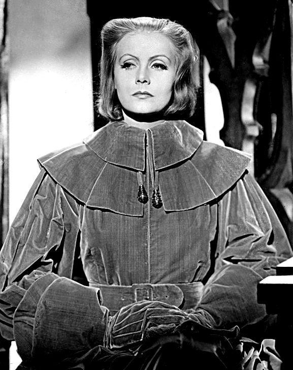 Original studio publicity photo of Greta Garbo in Queen Christina